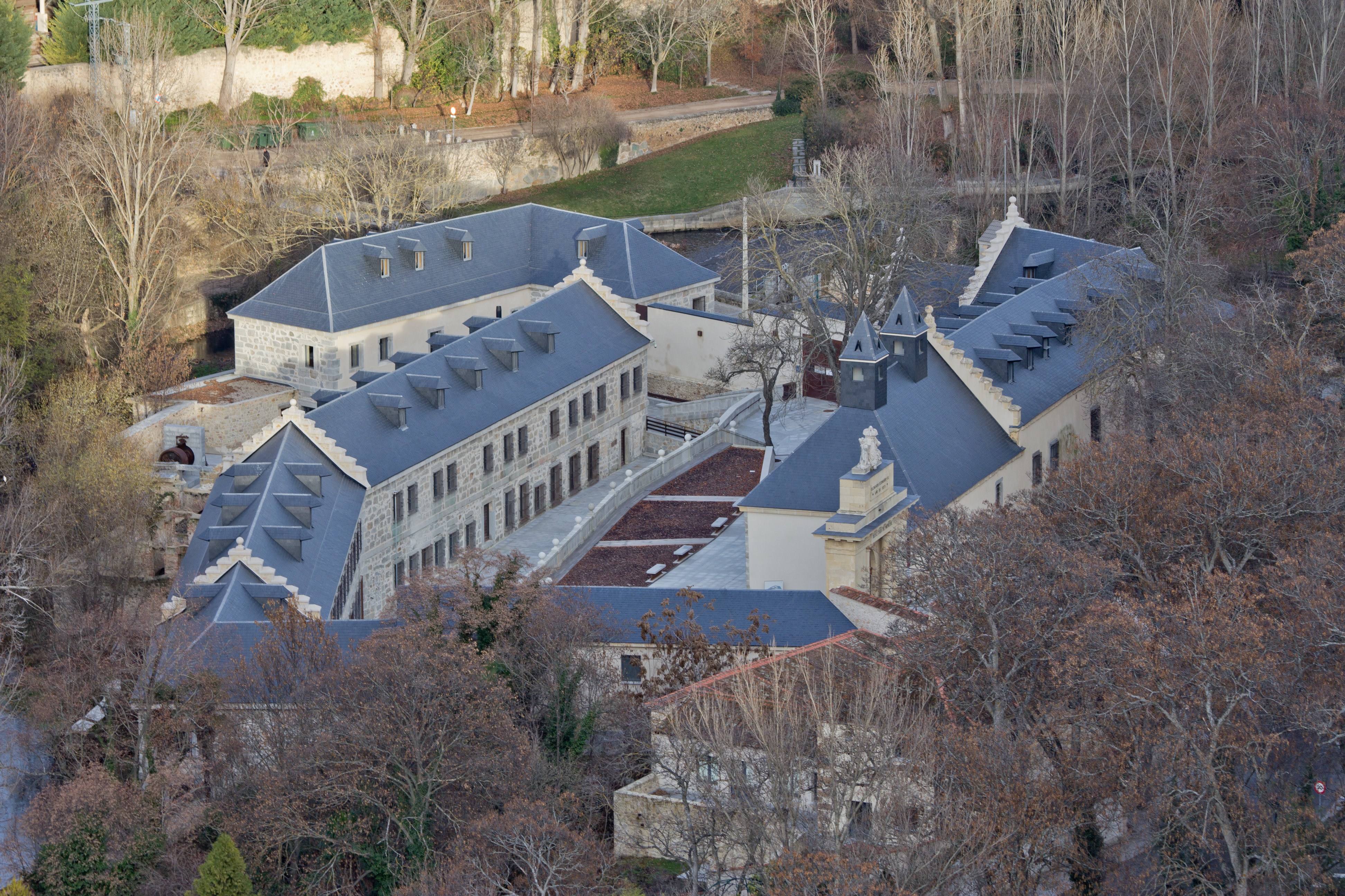 House of Mint, Segovia, Spain.